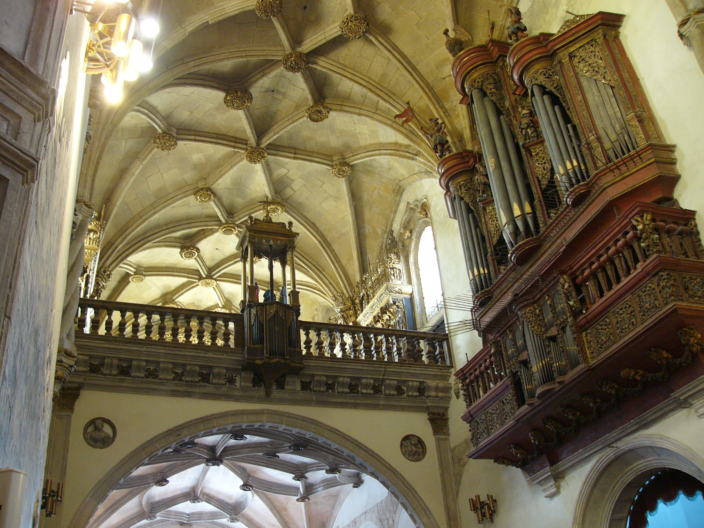 Interior of Santa Cruz Monastery in Coimbra, Portugal